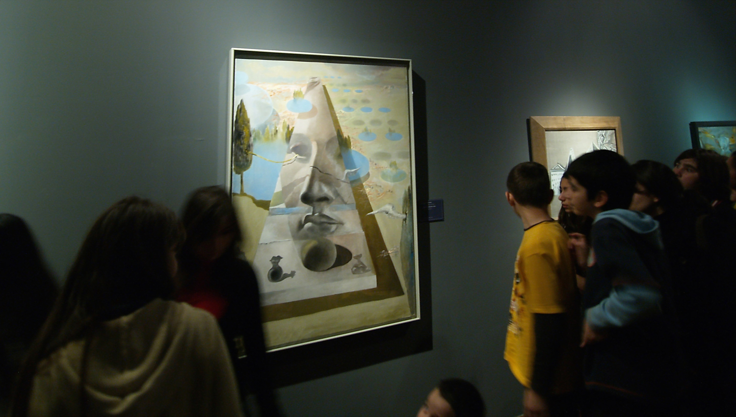 Children at Dali's exhibition, Sabanci Foundation, Istanbul, Turkey